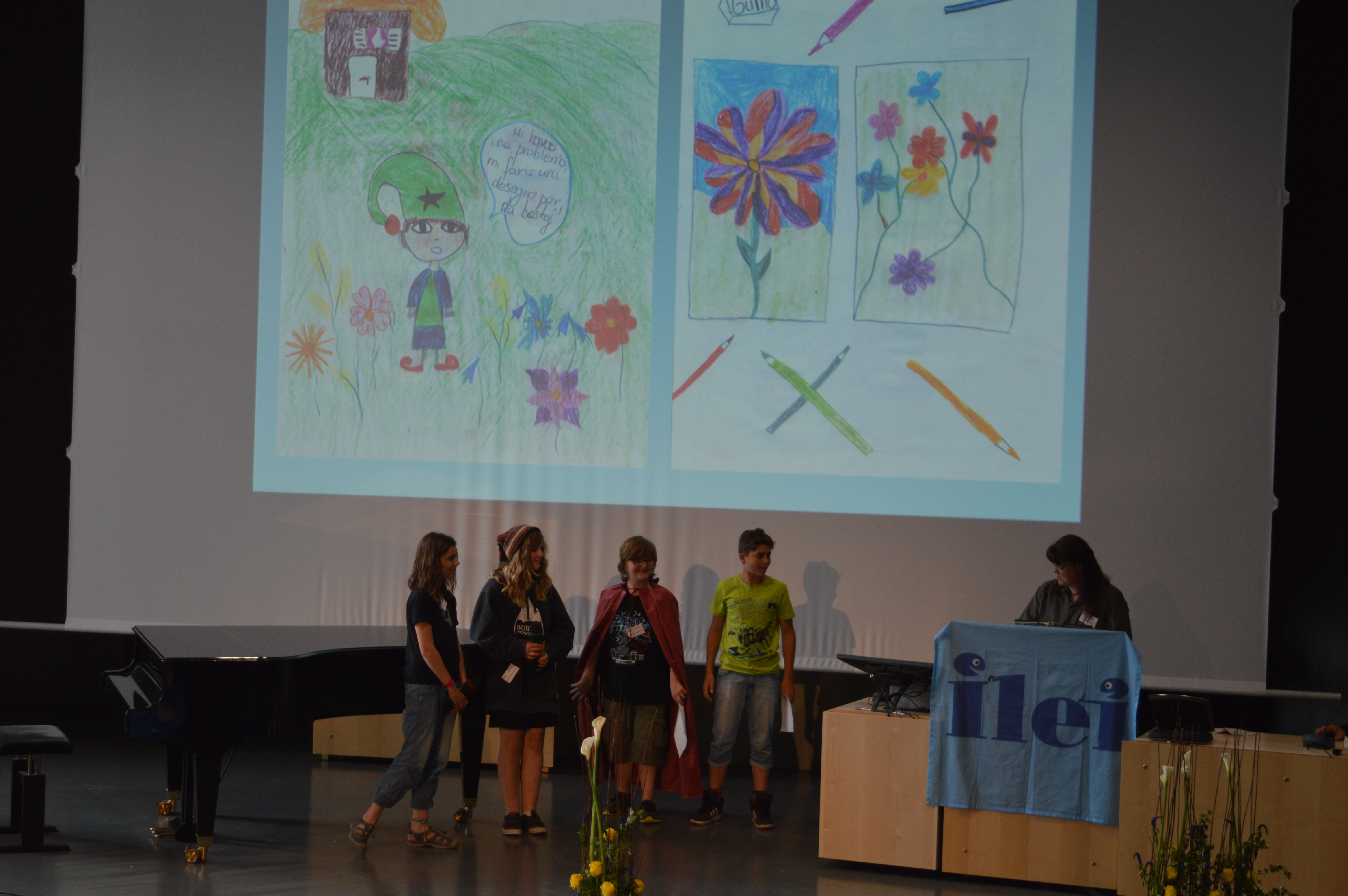 Children oft the Freineit school Granda Ursino presentig their self created theatre in Esperanto during the third international conference on Esperanto teachting, canton of Neuchatel, SwitzerlandEsperanto: Infanoj de la lernejo Granda Ursino, kiu prezentis sian memfaritan teatraĵon en Esperanto dum la tria konferenco pri Esperanto-instruado, Neŭŝatelo, Svislando